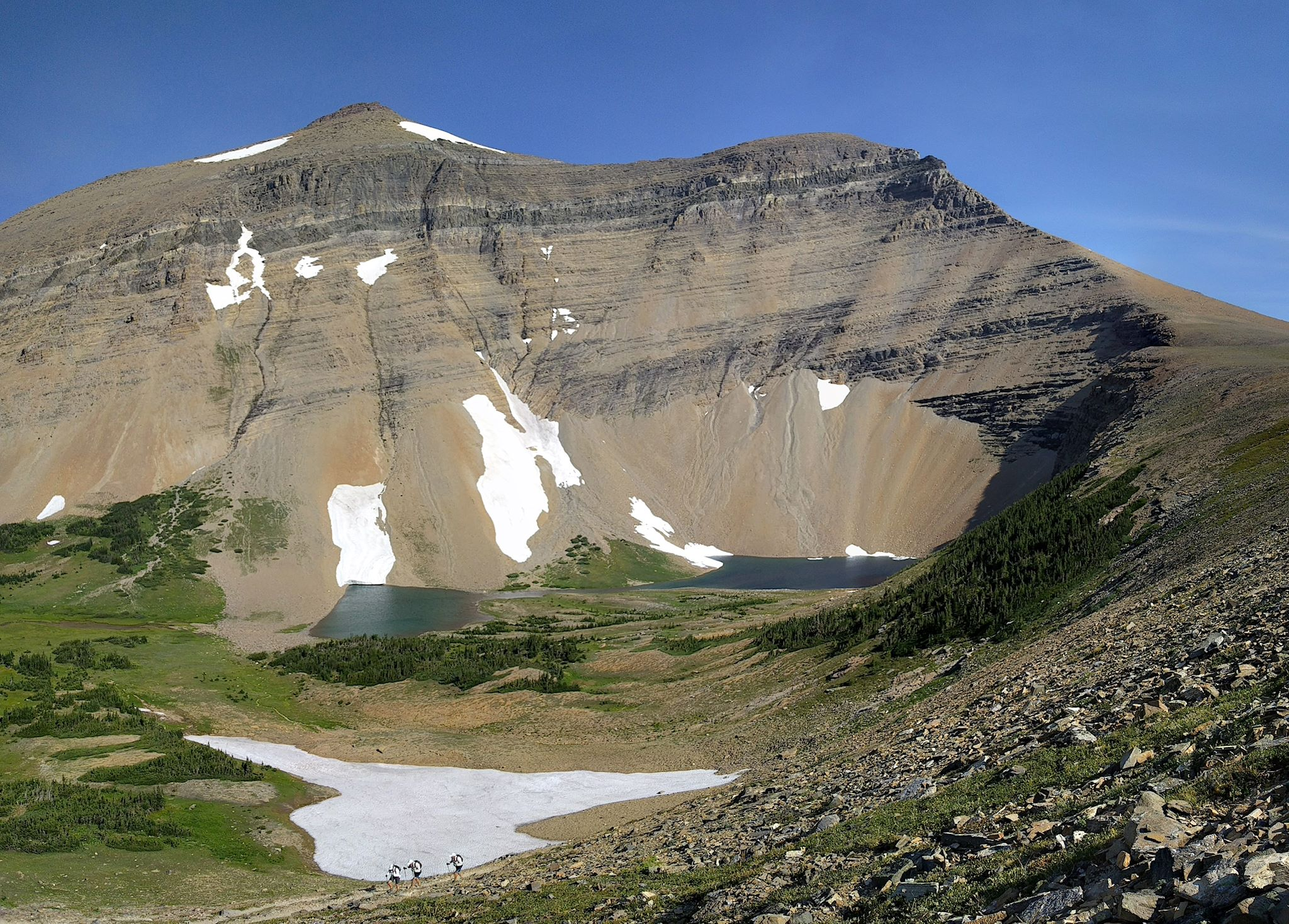 Mount Siyeh seen with Preston Park from Siyeh Pass. Glacier Park, Montana